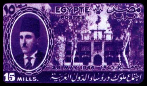 Arab League of states meeting at Anshas palace, Arab League conference 28-5-1946 2